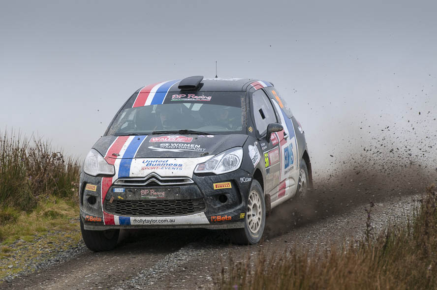 Wales Rally Great Britain 2012 Citroen DS3 R3T,Halfway 1,Molly Taylor,Motorsport,Rally,Rallye,SS9,Sebastian Marshall,United Rally Management,WP9,WRC,Wales Rally GB